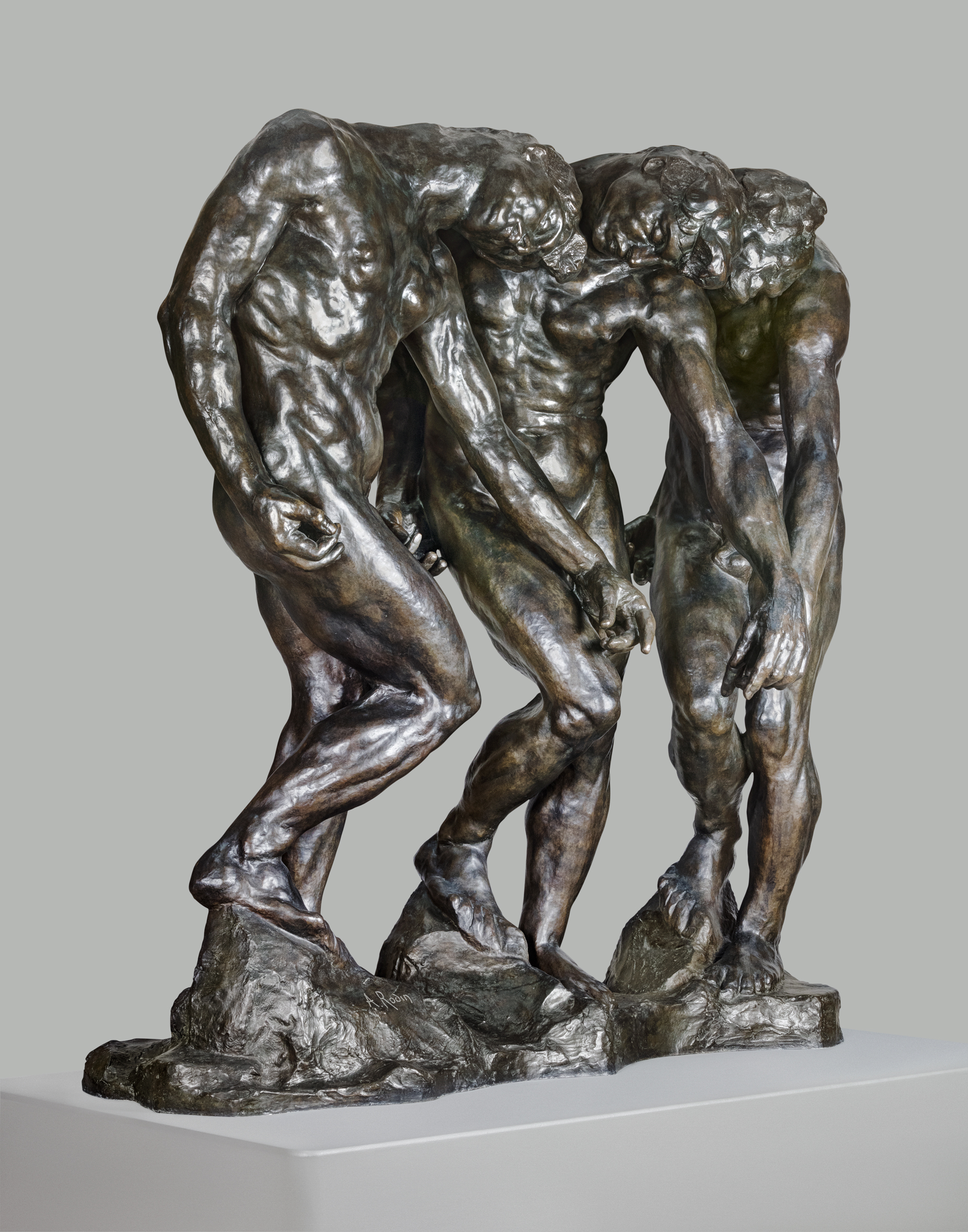 The Three Shades in Museo Soumaya, Mexico City.